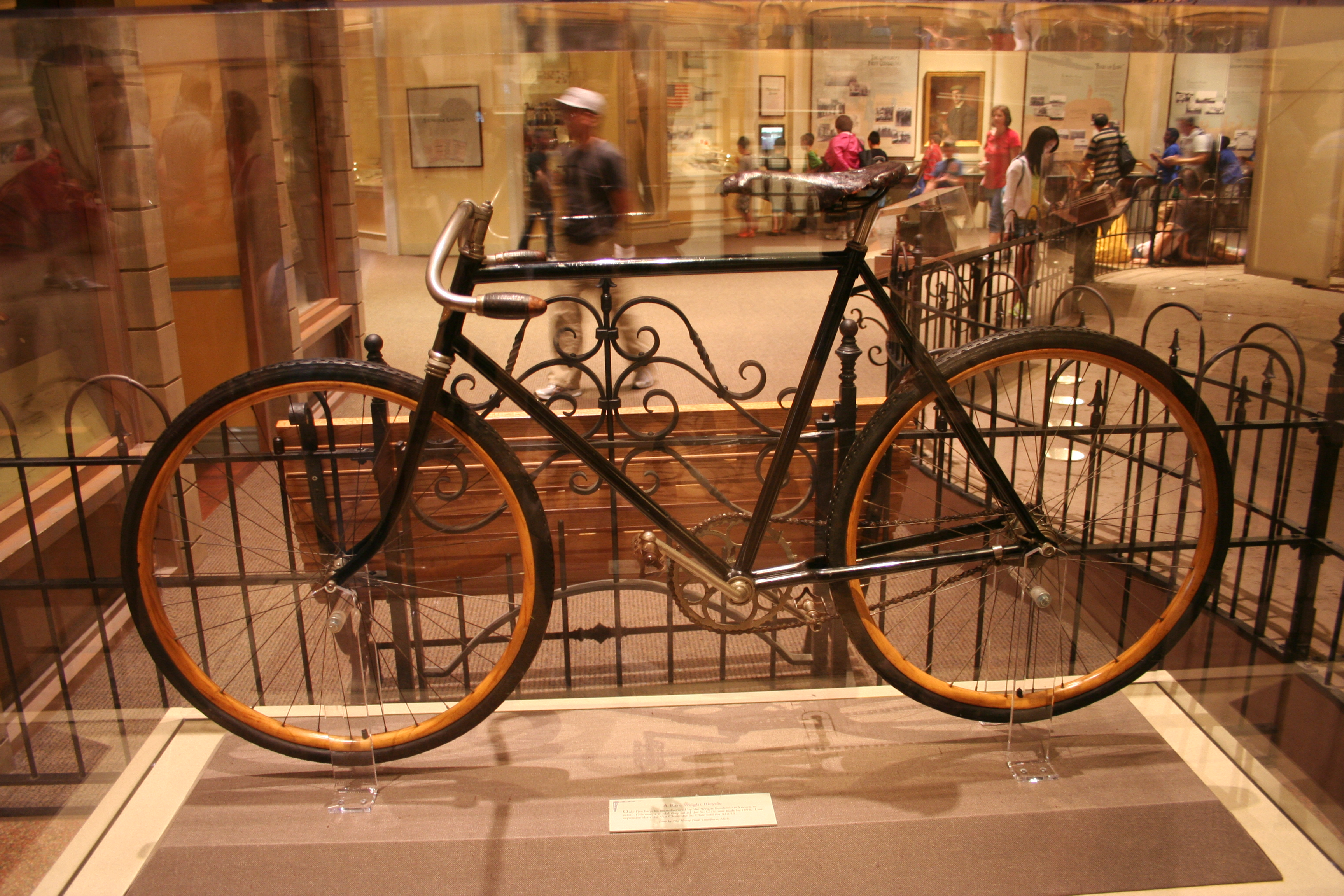 Wright Brothers bicycle on display at the National Air and Space Museum.